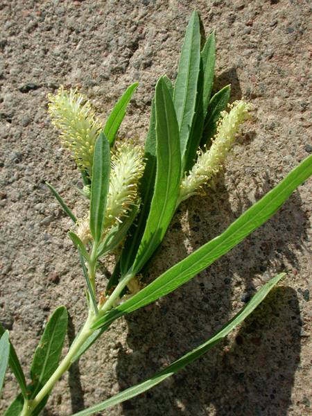 Salix exigua, Coyote Willow from along Salt River, Maricopa Co., Arozona, USA. Leaves and catkin.